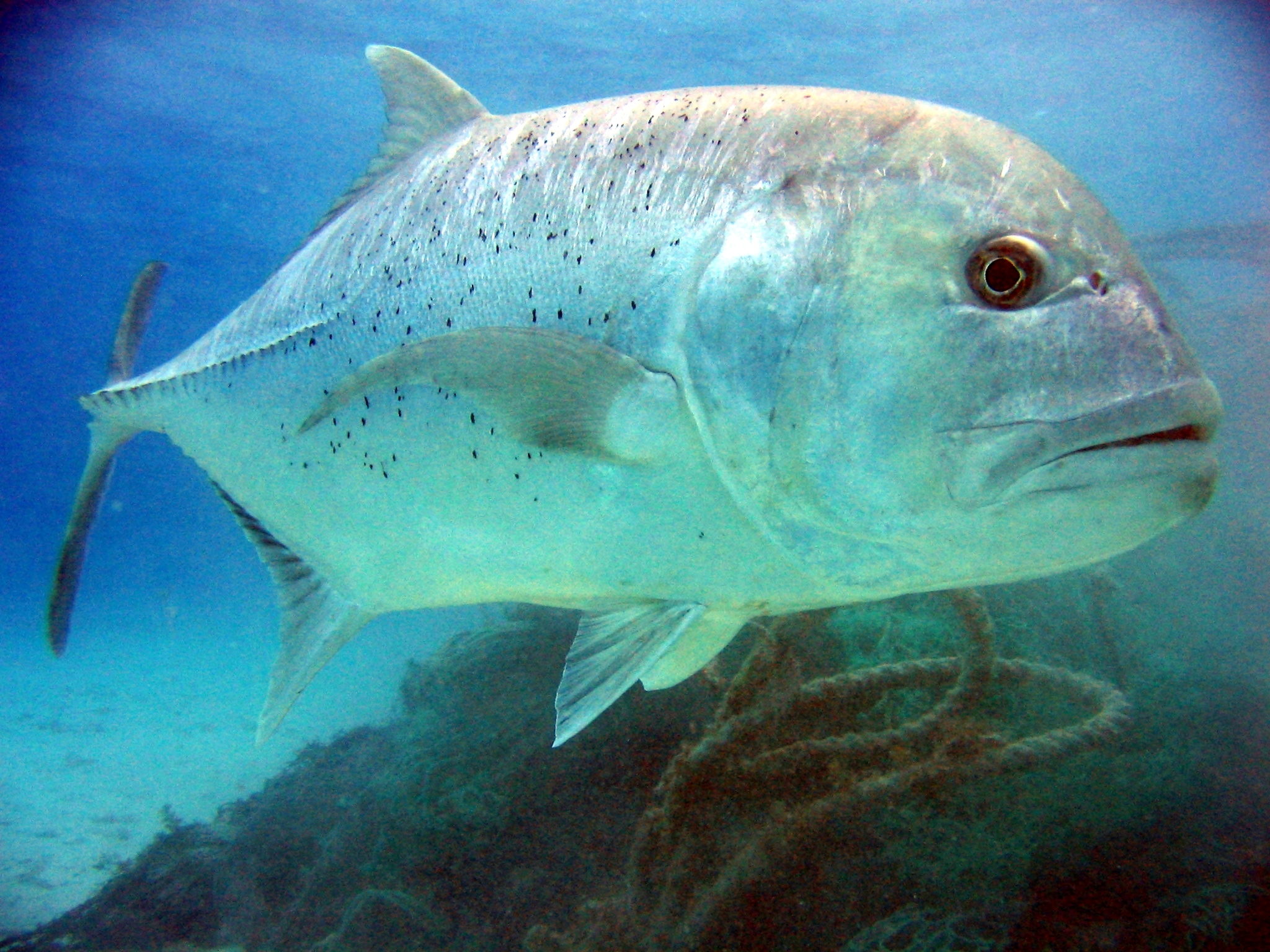 Giant trevally (Caranx ignobilis) Image ID: reef0735, NOAA's Coral Kingdom Collection Location: Northwest Hawaiian Islands